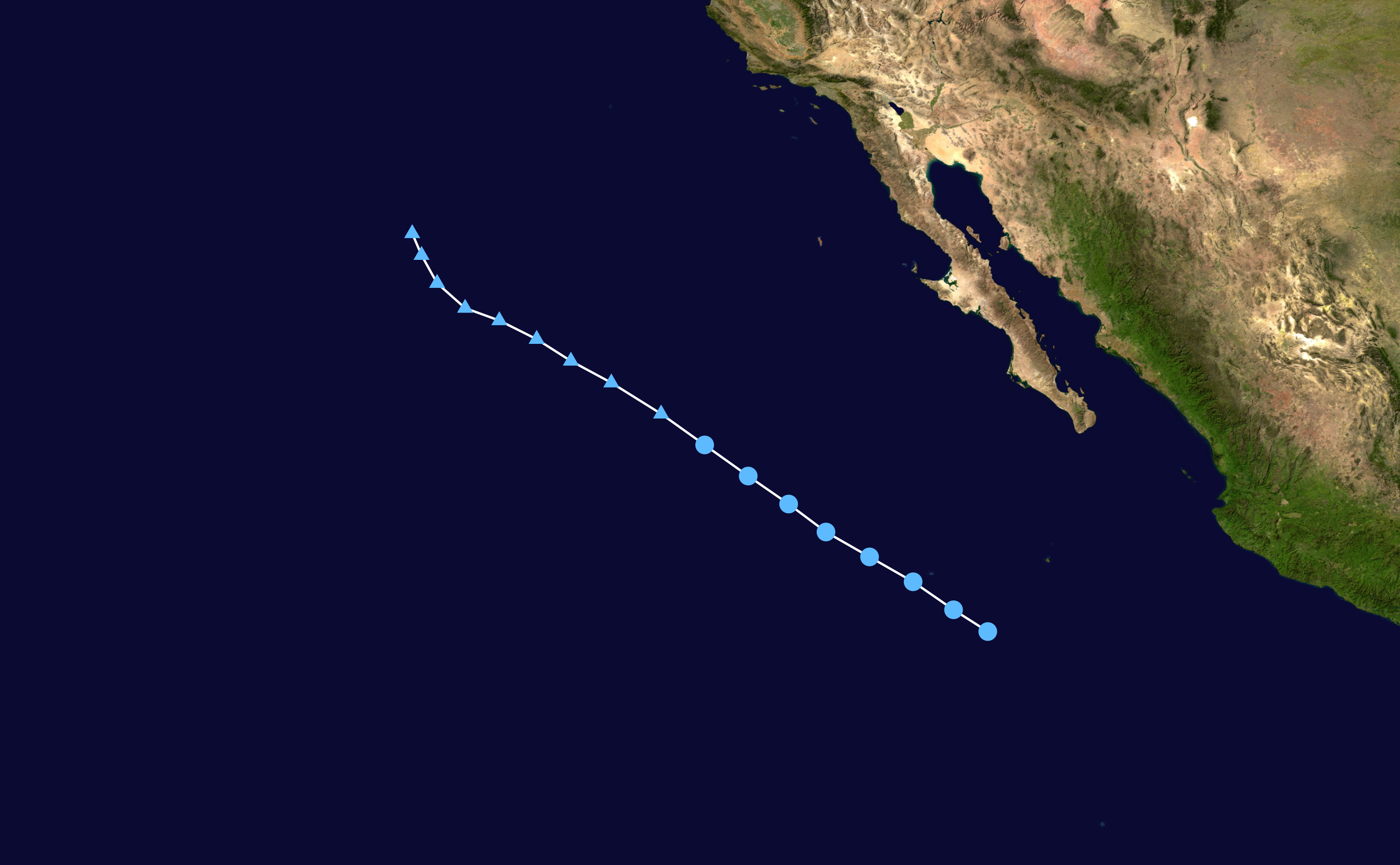 Track map of Tropical Depression Eleven-E of the 2015 Pacific hurricane season. The points show the location of the storm at 6-hour intervals. The colour represents the storm's maximum sustained wind speeds as classified in the Saffir–Simpson scale (see below), and the shape of the data points represent the nature of the storm, according to the legend below. Saffir–Simpson scale Tropical depression≤38 mph≤62 km/h Category 3111–129 mph178–208 km/h Tropical storm39–73 mph63–118 km/h Category 4130–156 mph209–251 km/h Category 174–95 mph119–153 km/h Category 5≥157 mph≥252 km/h Category 296–110 mph154–177 km/h Unknown Storm type Tropical cyclone Subtropical cyclone Extratropical cyclone / Remnant low / Tropical disturbance / Monsoon depression